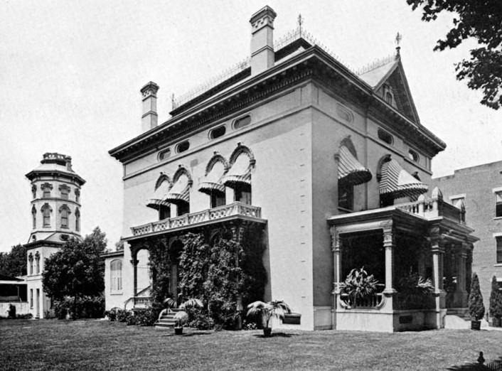 Photograph of the Bridgland-Gaar Mansion in Richmond, Indiana 1906